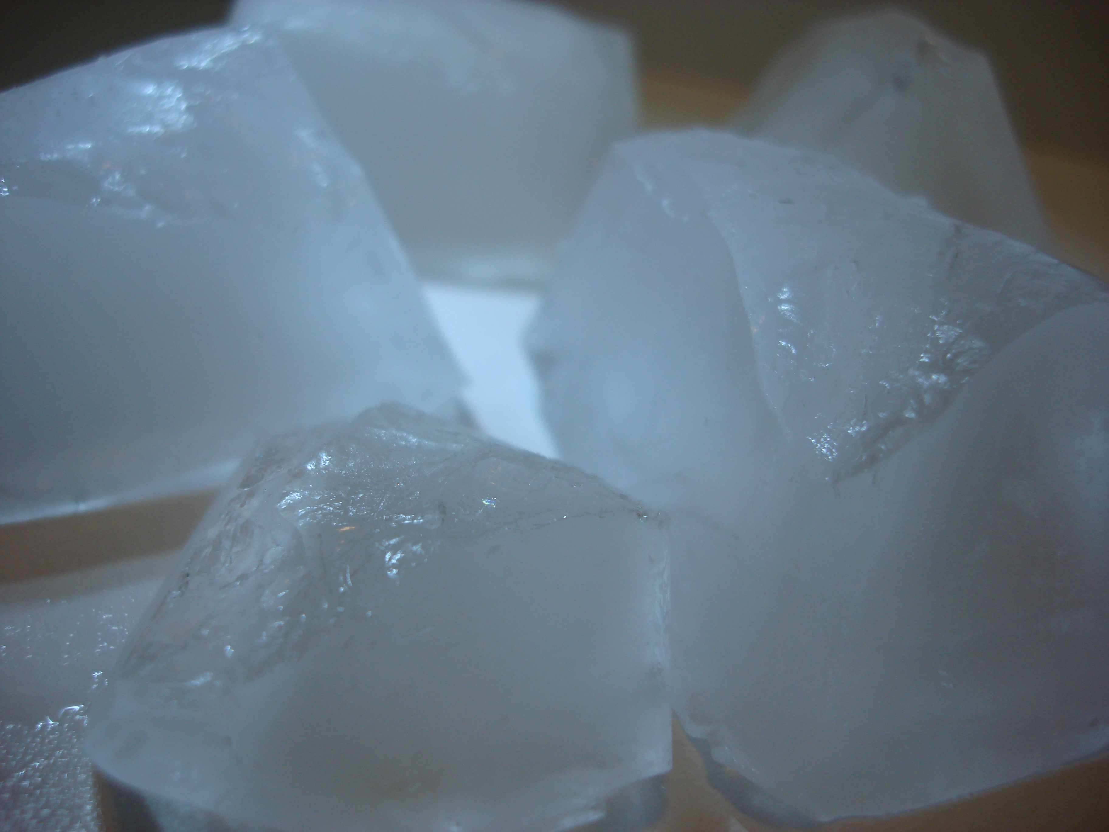 A picture of a group of 5 ice cubes (3 whole ones and one that broke in half) on a white table, against a white background. Lighting consisted of a ceiling light and a handheld LCD flashlight. Camera flash was on, macro setting was used.